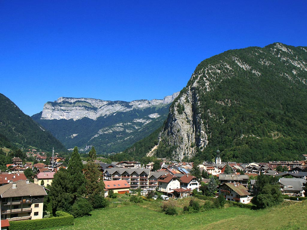 Thones Valley - French Alps - Haute-Savoie.